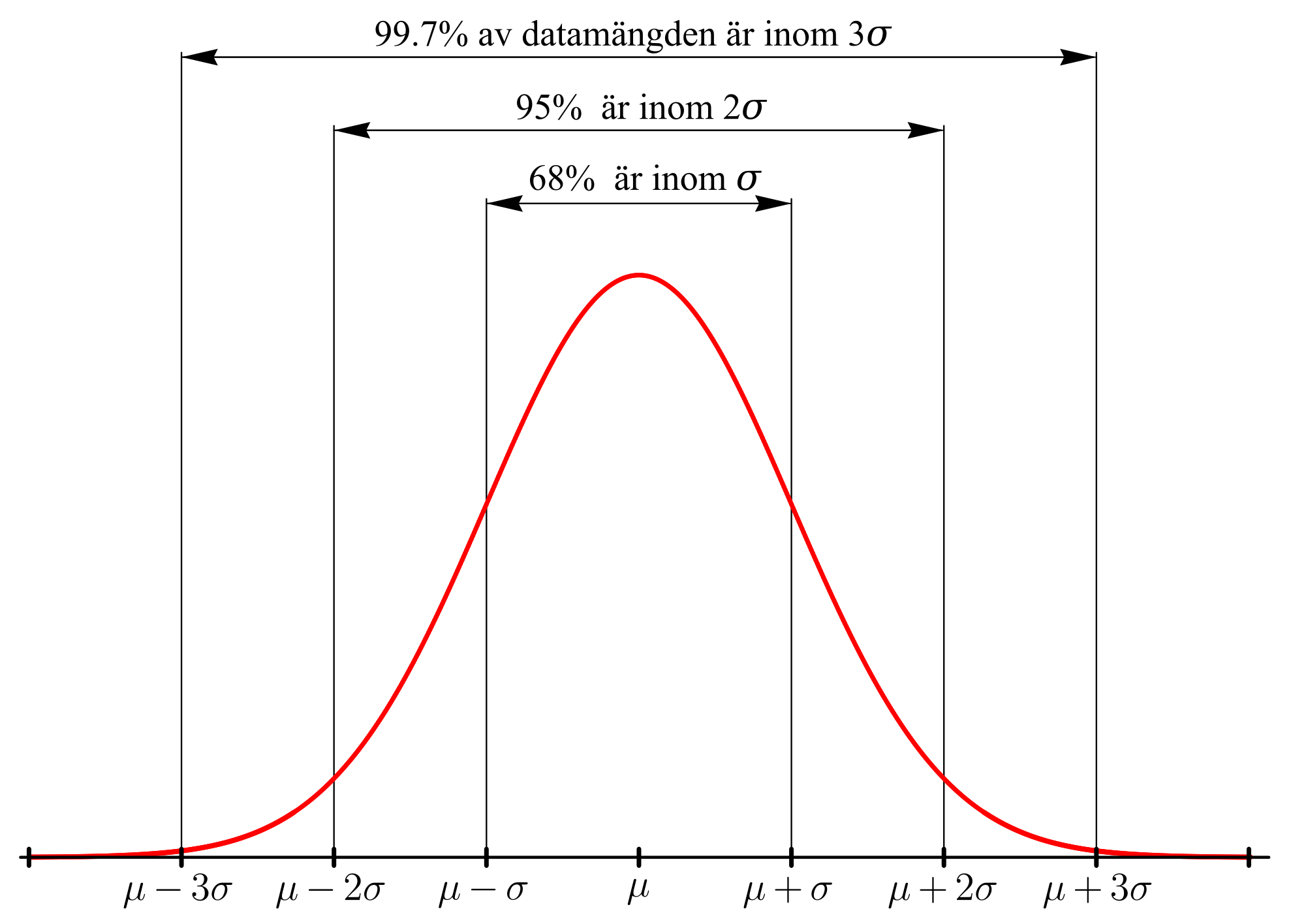 68–95–99.7 standard deviation rule